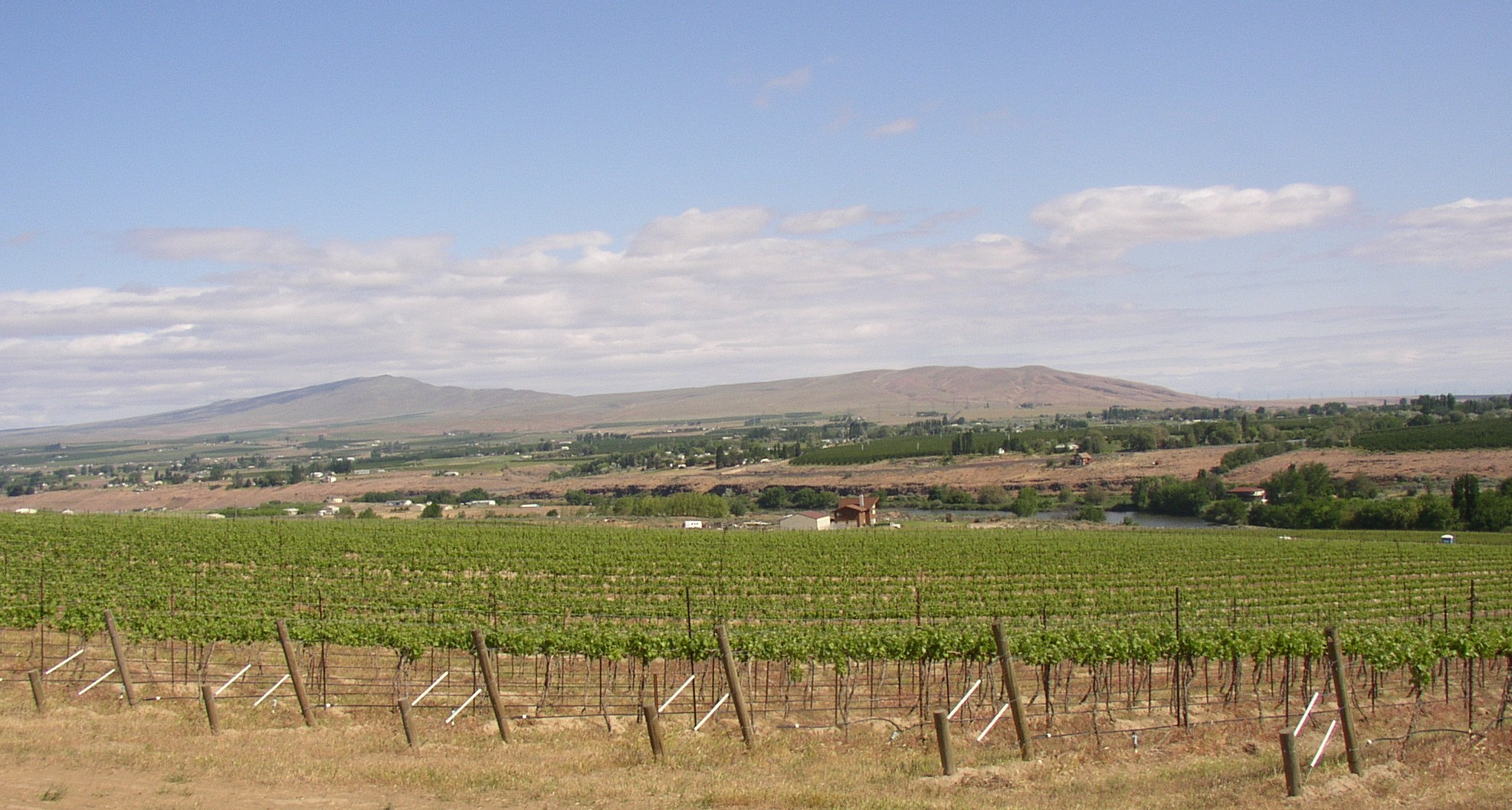 Rattlesnake Mountain beyond the Yakima River in Washington state. In the foreground are the Chandler Reach Vineyards in the Yakima Valley AVA.